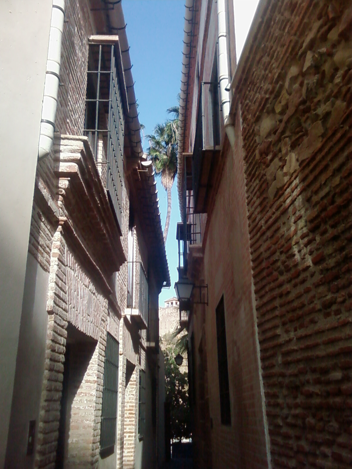 Jewry in Málaga, Spain